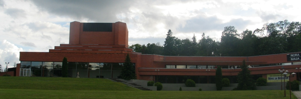 Ugala theater in Viljandi, Estonia